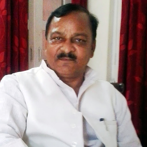 minister of up